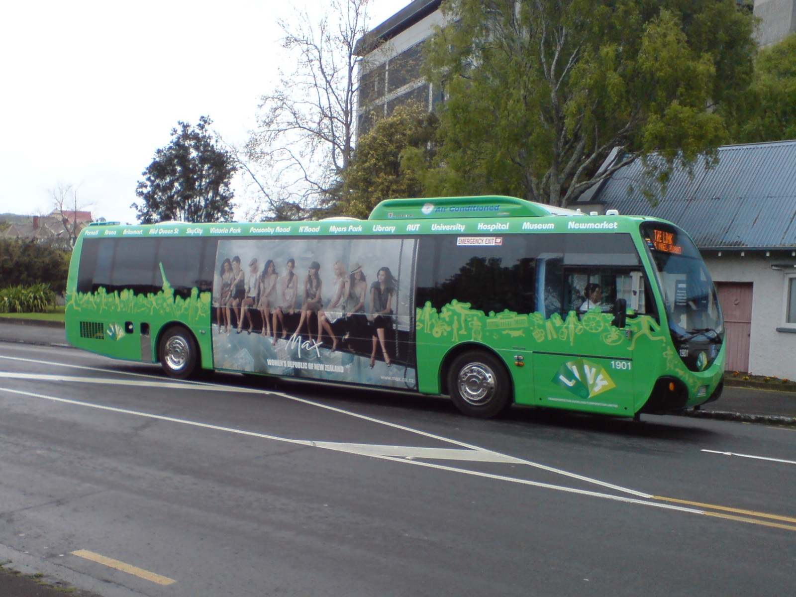 One of the new "Link" buses near Auckland Hospital in Auckland City, New Zealand.